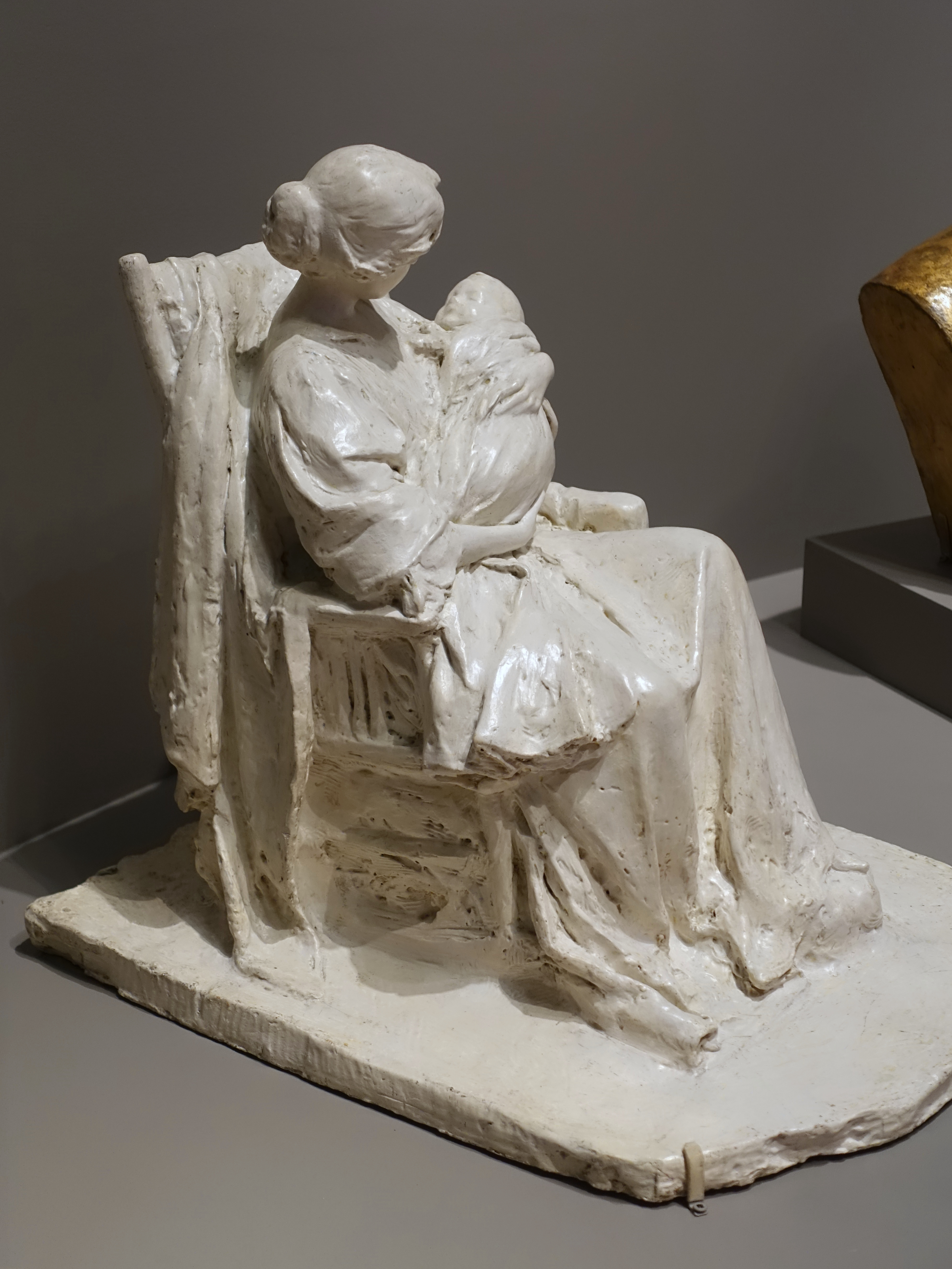 Exhibit in the Portland Museum of Art - Portland, Maine, USA.